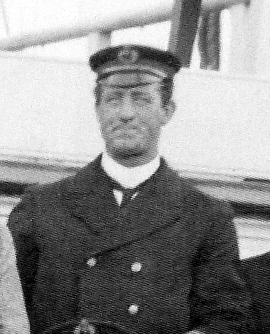 Henry Harry Dunlop, chief-engineer on the Nimrod Expedition (1907-1909)